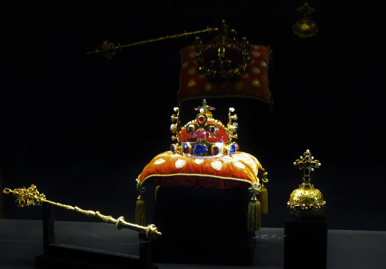 Czech Crown Jewels during its exhibition in May 2016, Prague Castle. The crown was made in the 1340s, the sceptre and the orb in the 1530s.